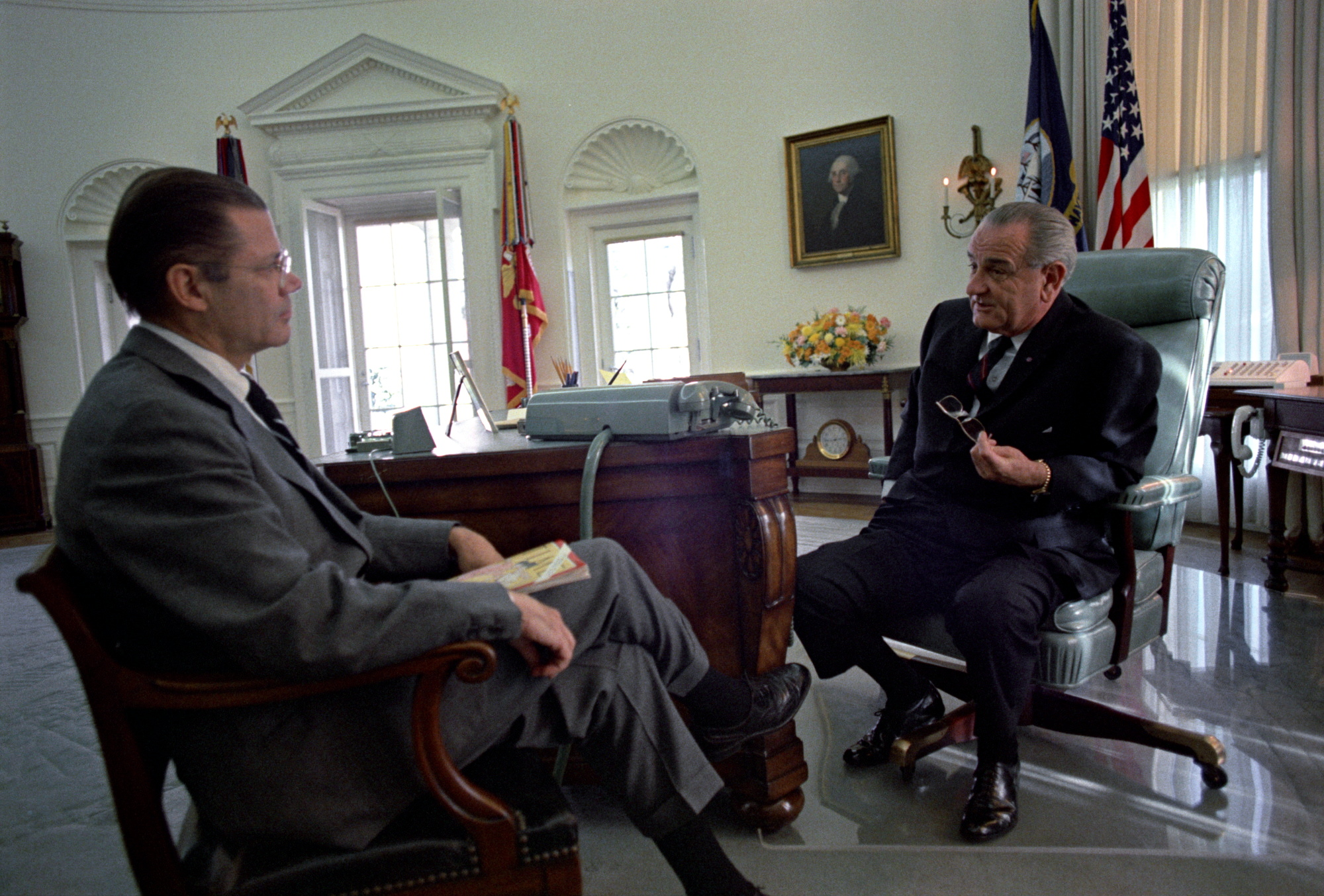 President Lyndon B. Johnson (right) talks with Sec. Robert McNamara